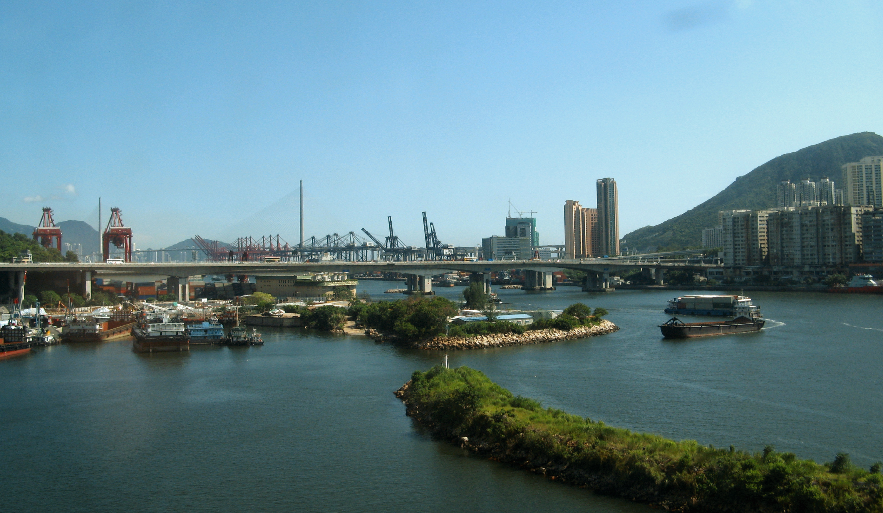 Cheung Tsing Bridge, Tsing Yi on the right